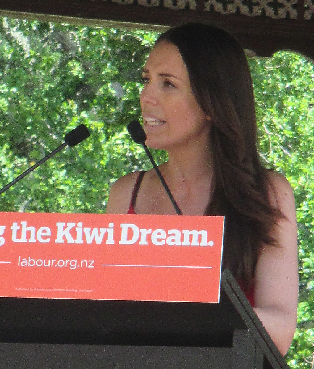 Jacinda Ardern speaking in Albert Park before Andrew Little's State of the Nation Speech on 31 January 2016. This is a cropped version of this file. Māori: E kōrero ana a Jacinda Ardern i Albert Park i mua atu i a Andrew Little e kōrero ana i tōna State of the Nation Speech.